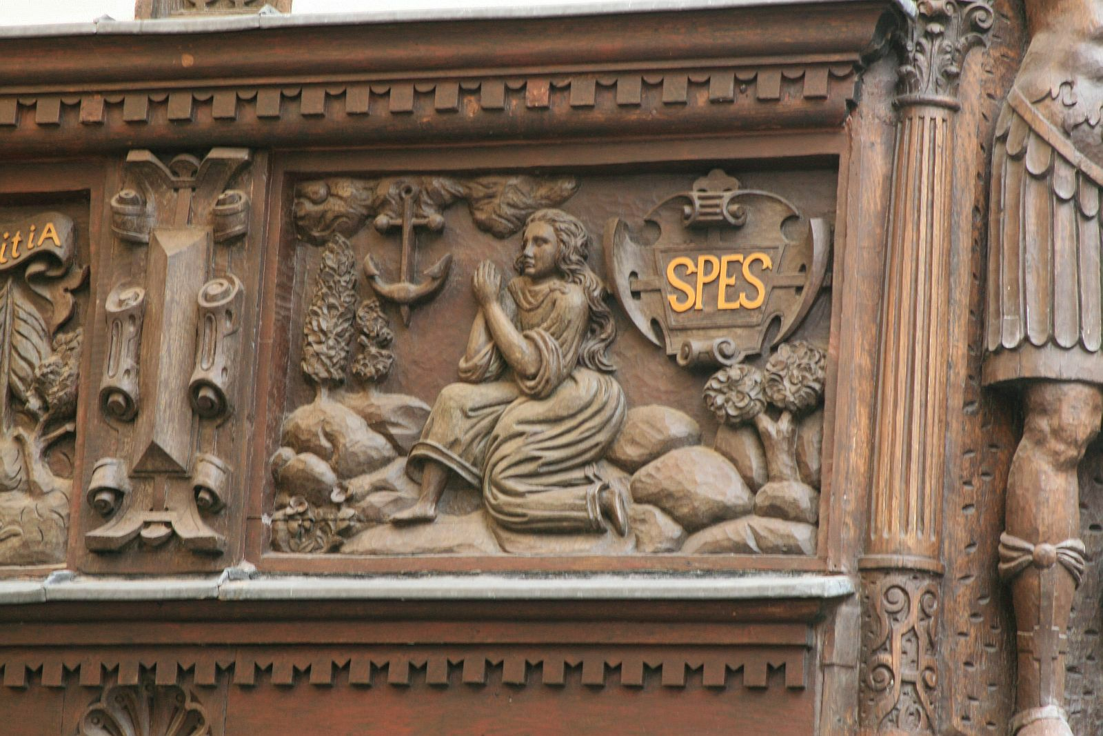 Detail of Eickesches Haus (timberframe) in Einbeck, Germany: view of the virtue "hope" (lat. "spes")